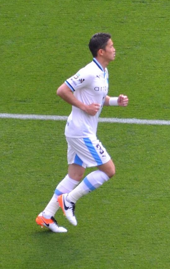 Tatsuki Nara during the Tamagawa Clasico - the match between FC Tokyo and Kawasaki Frontale - played at Ajinomoto Stadium 16th April 2016.